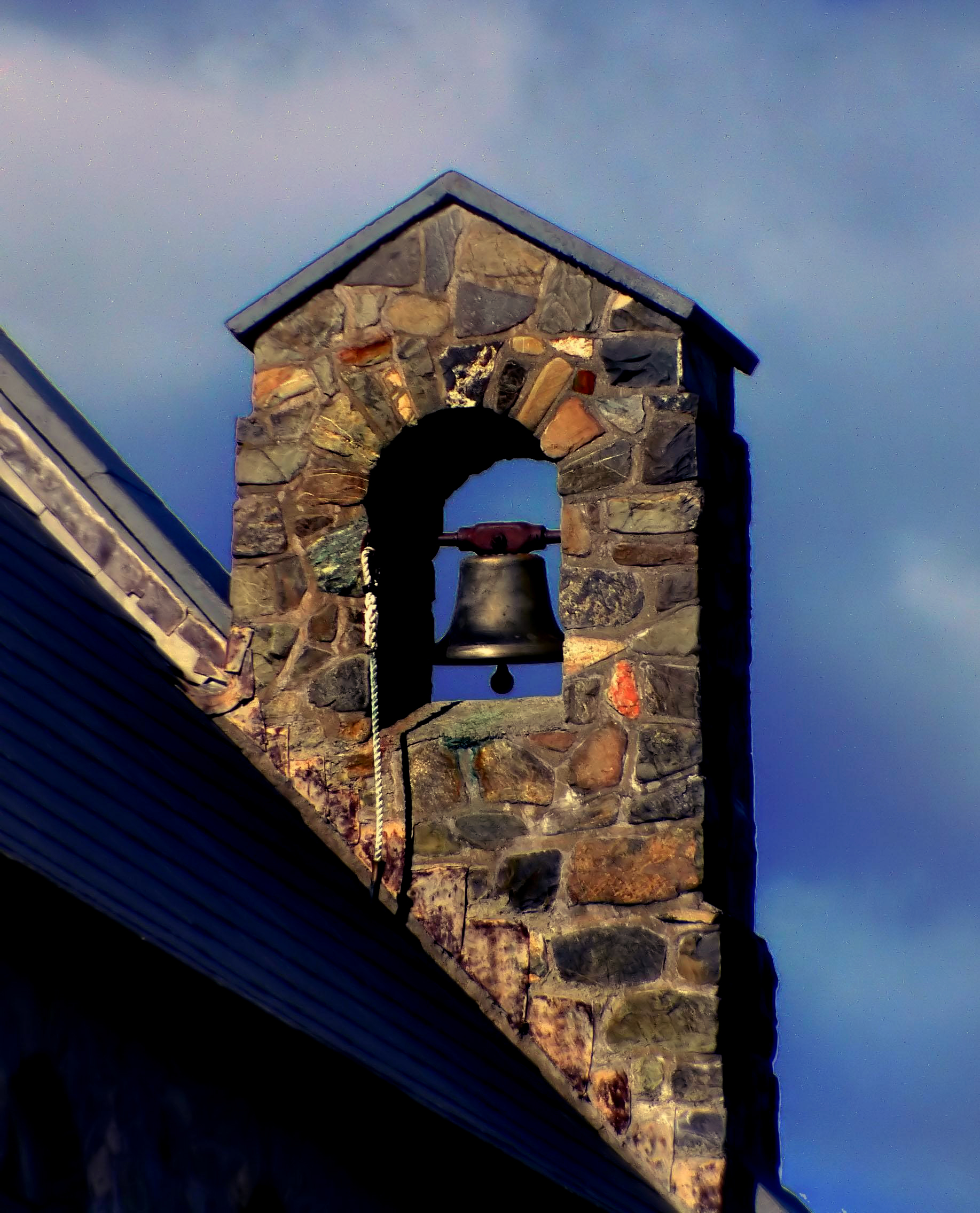 Bell tower